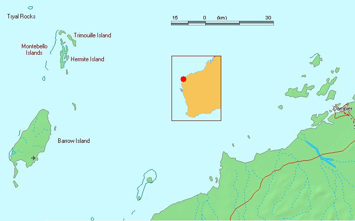 Map of Barrow island and the Montebello Islands, Western Australia Drawn by User:I@n using source map at